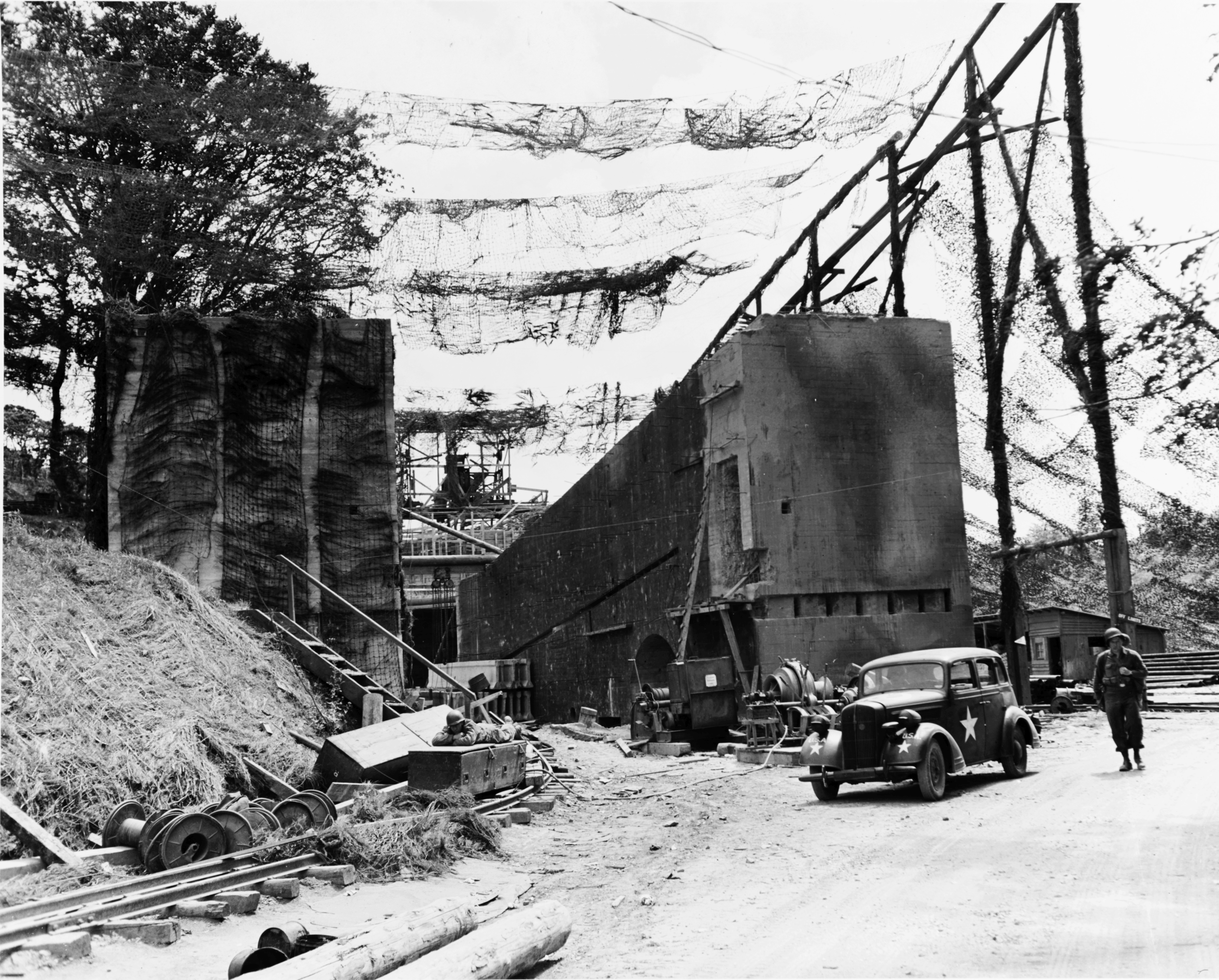 Rear view of an incomplete launching ramp for German V-1 flying bombs, at Brécourt, Cherbourg, 12 July 1944. Note the camouflage netting suspended over the site. Official U.S. Navy Photograph, now in the collections of the National Archives. Catalog #: 80-G-254533